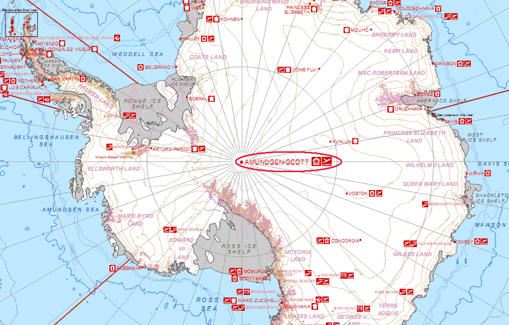 PDF version at